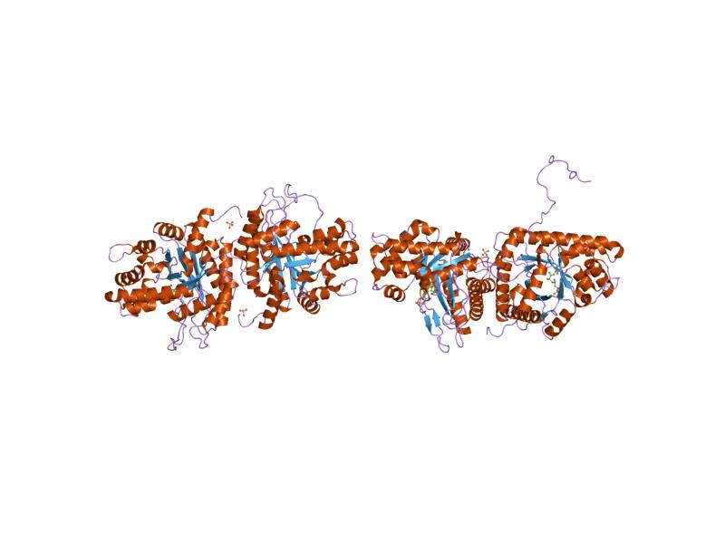 Cartoon representation of the molecular structure of protein registered with 1fdj code.